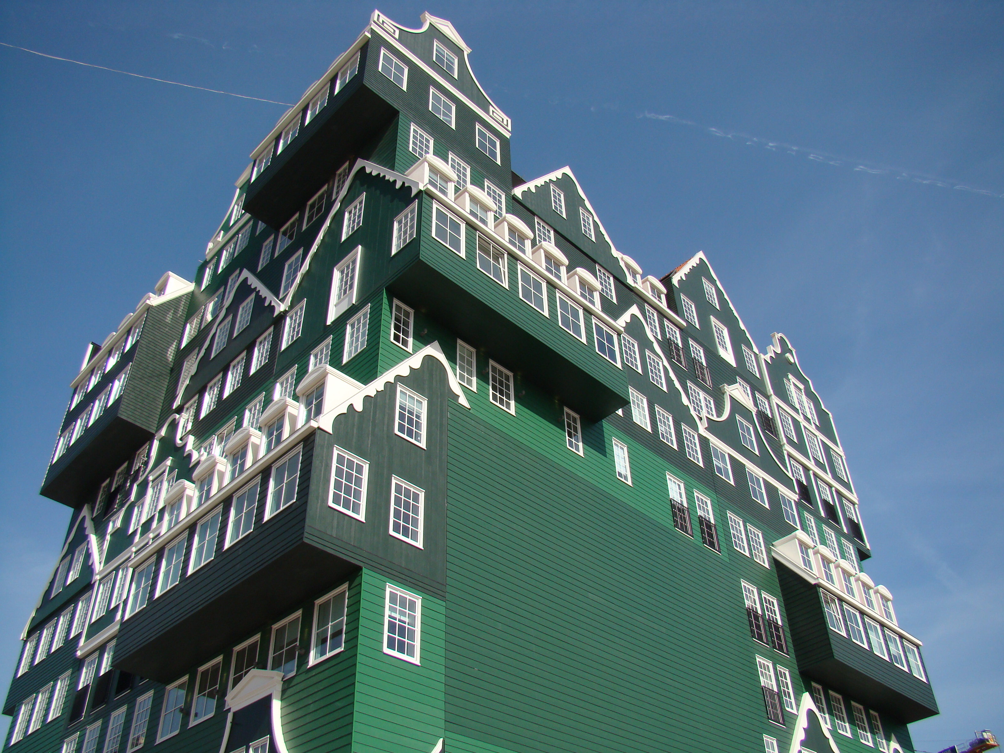 New building at Zaandam, Netherlands